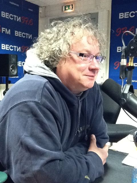 Nikolai Zlobin hosting on Vesti FM with Vladimir Solovyev. 03.28.2011.jpg